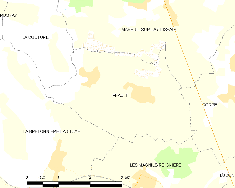 Map of French municipality Péault